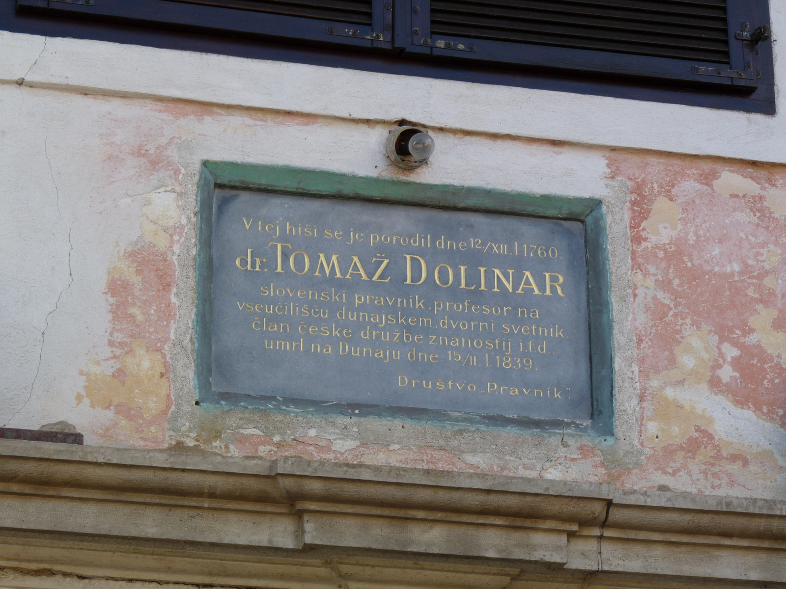 Spominska plošča Tomaža Dolinarja, Dorfarje. This media shows a cultural heritage object of Slovenia with the EŠD number: 14532